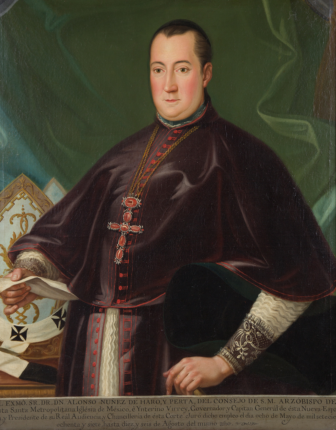 Archibishop and Viceroy Alonso Núñez de Haro y Peralta